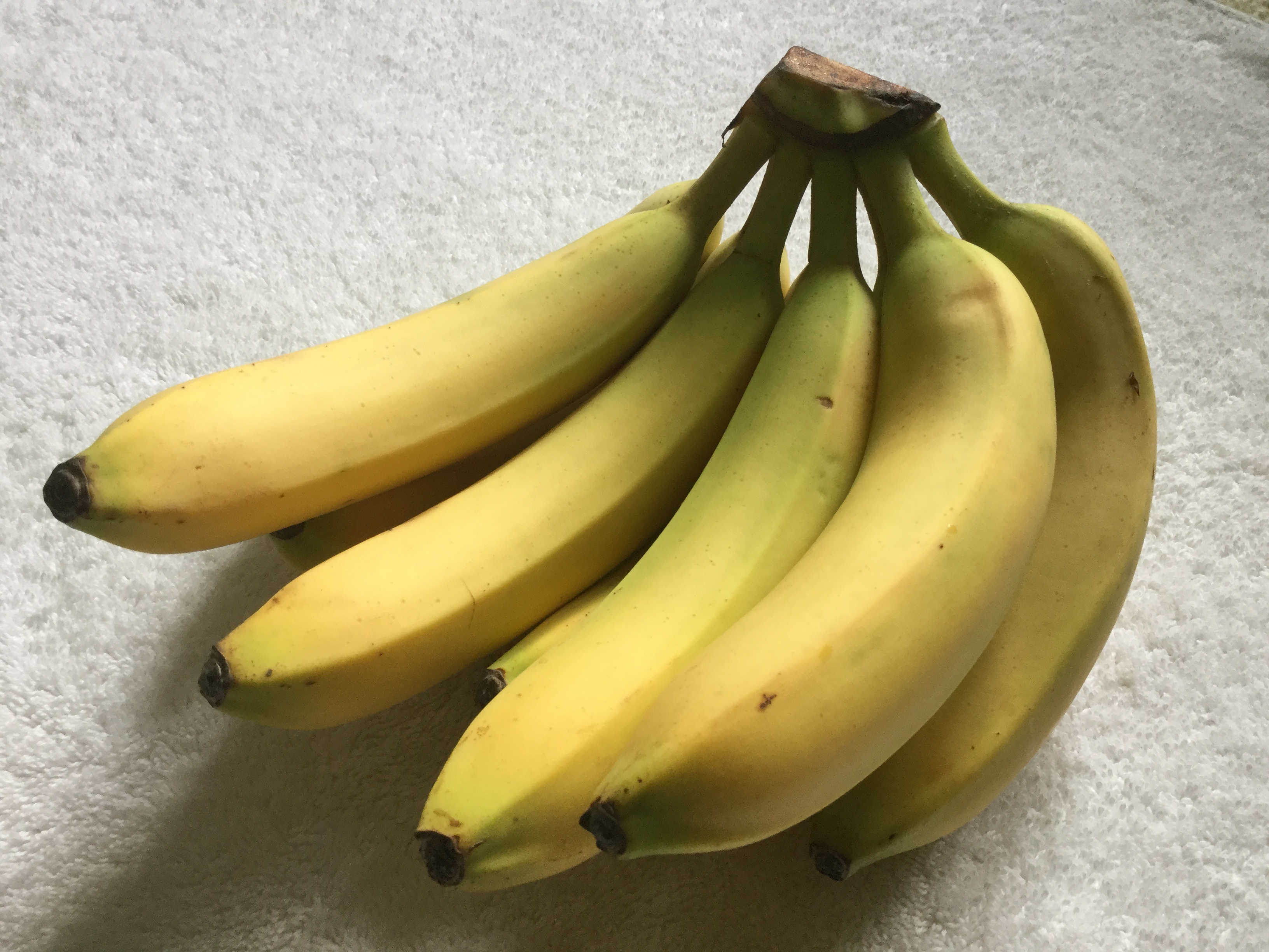 Cavendish Bananas